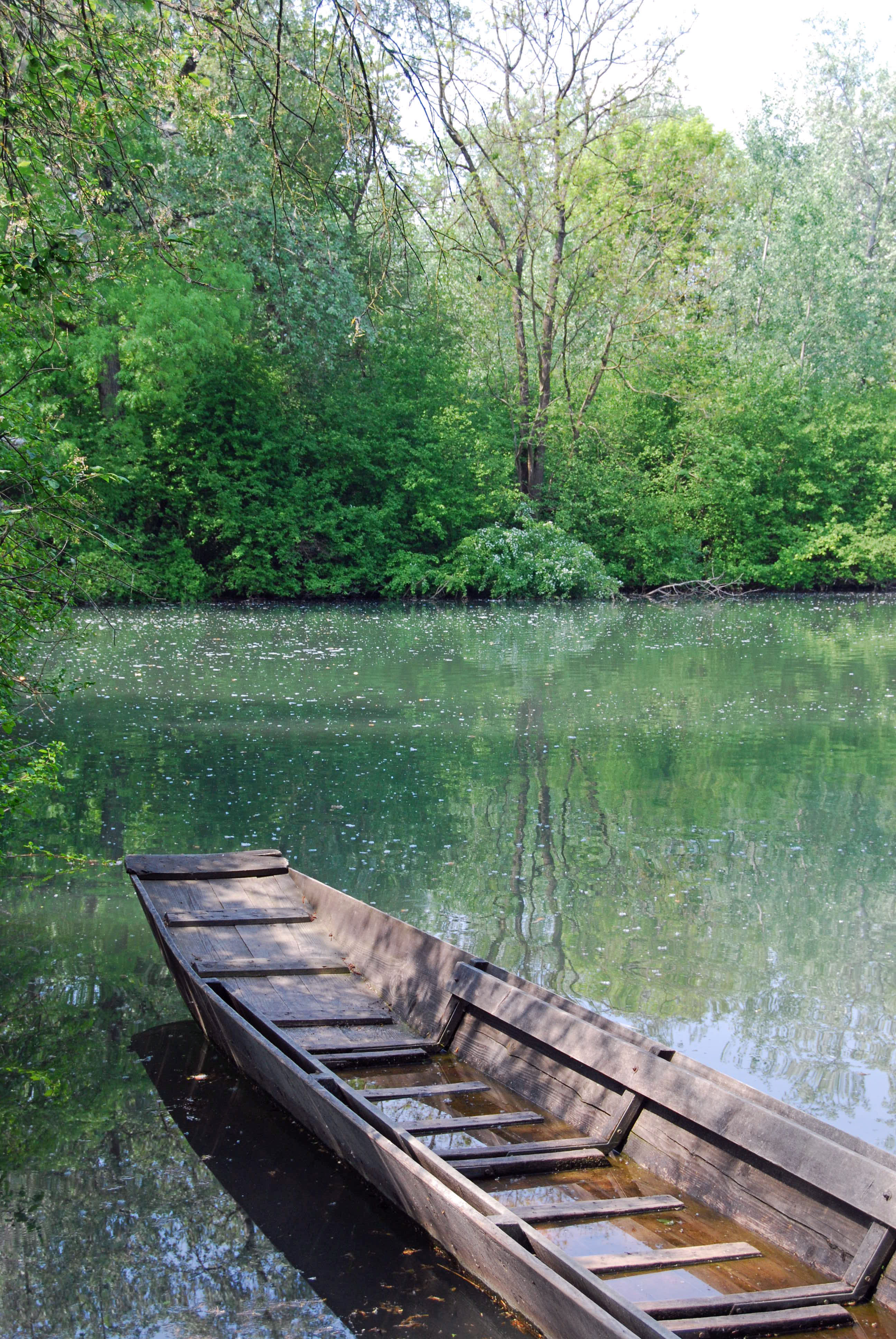 Boat on the Rhine, Taubergießen